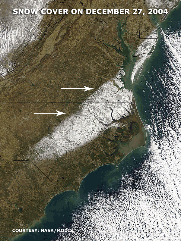 National Climatic Data Center, NESDIS, and NASA Day after Christmas 2004 snow for North Carolina and Southeast Virginia